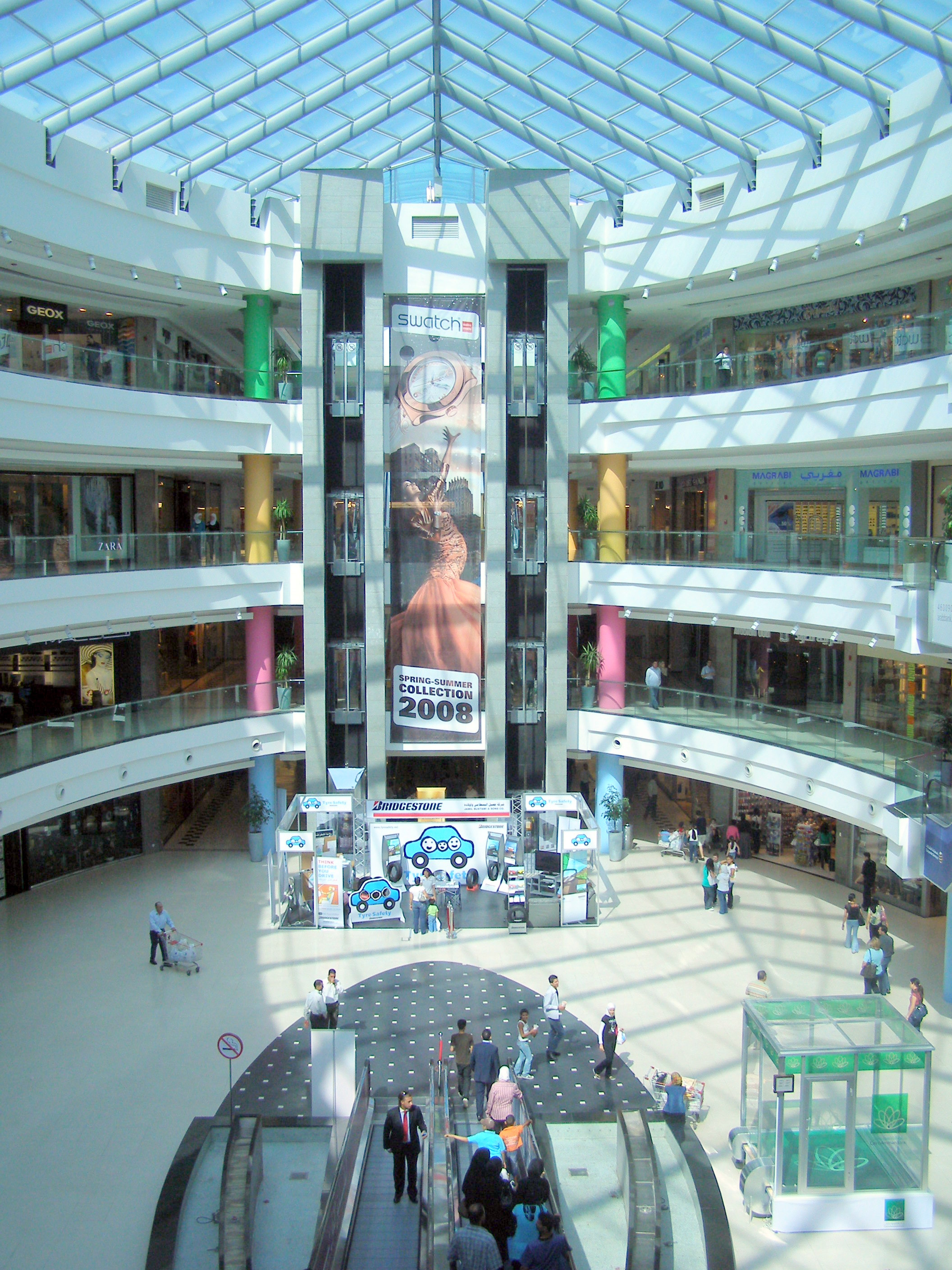 City Mall Amman